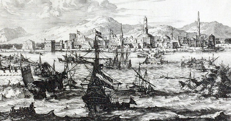 View of Mocha during the second half of the 17th century. The Dutch flag is flying over a Dutch East India Company (VOC) ship in the foreground, as well as over the VOC factory seen toward the left of the picture. The English East India Company factory is visible near the center. Another flag can be seen flying on the right, most likely over the Danish East India Co. factory. The French were to establish their own factory during the early years of the 18th. century. However, by the 1740s Mocha was quickly losing its commercial importance when the Dutch East Indies and Brazil became important centers of coffee cultivation. Cropped from an engraving by Dutch geographer/mapmaker Olfert DAPPER published in 1680.